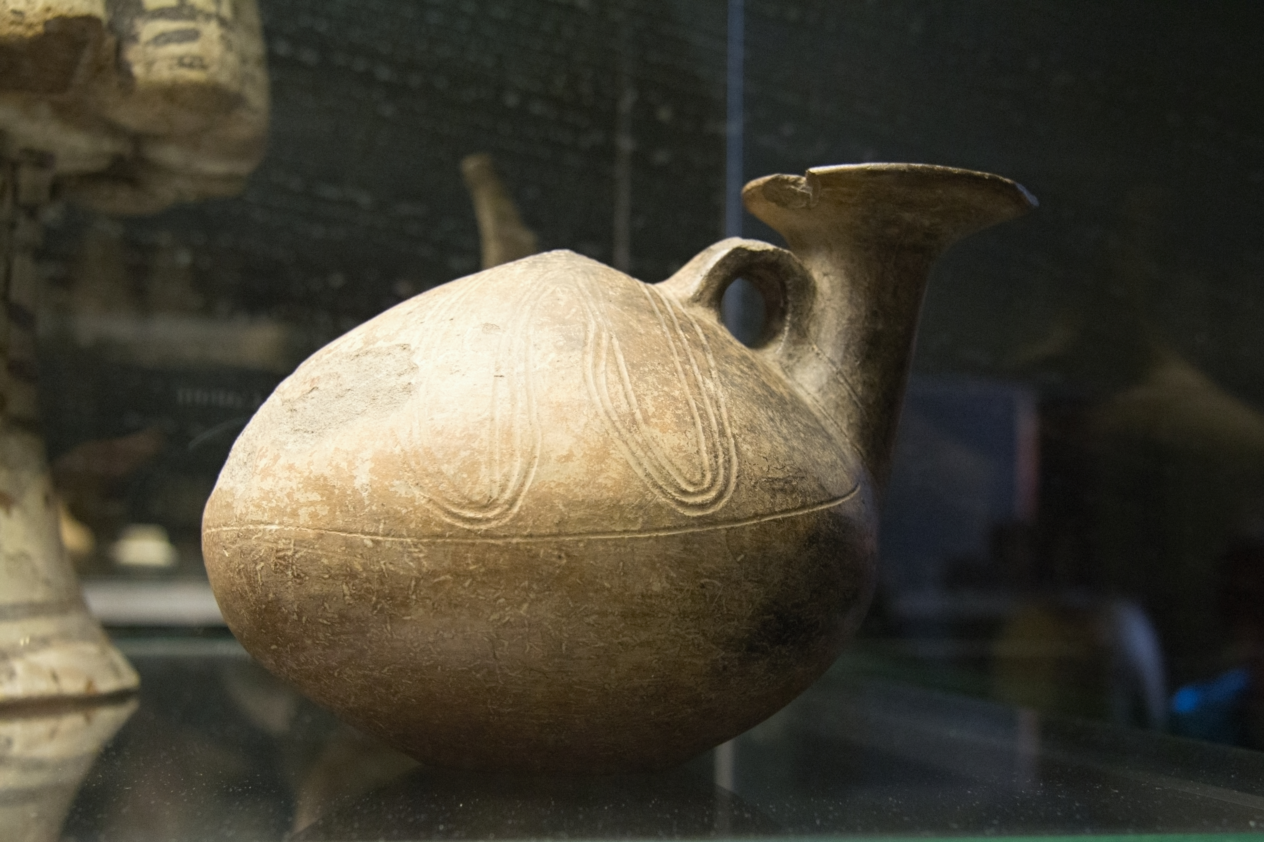 Pottery “duck vase” (“askos”), from Milos, Phylakopi I culture. Cycladic Early Bronze Age, EC III, 2300 – 2000 BC, British Museum GR 1865.12-14.39 BM Cat Vases A330.